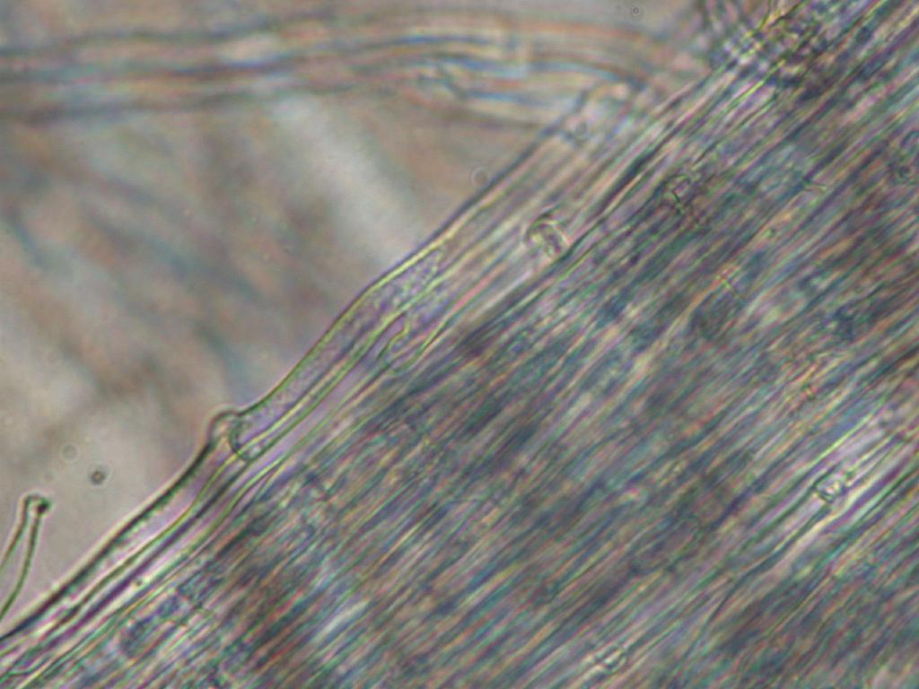 Hypha of Lentinula edodes(シイタケ） Date;2008,05,15;Tanabe city, Wakayama prefecture, Japan Author;Keisotyo